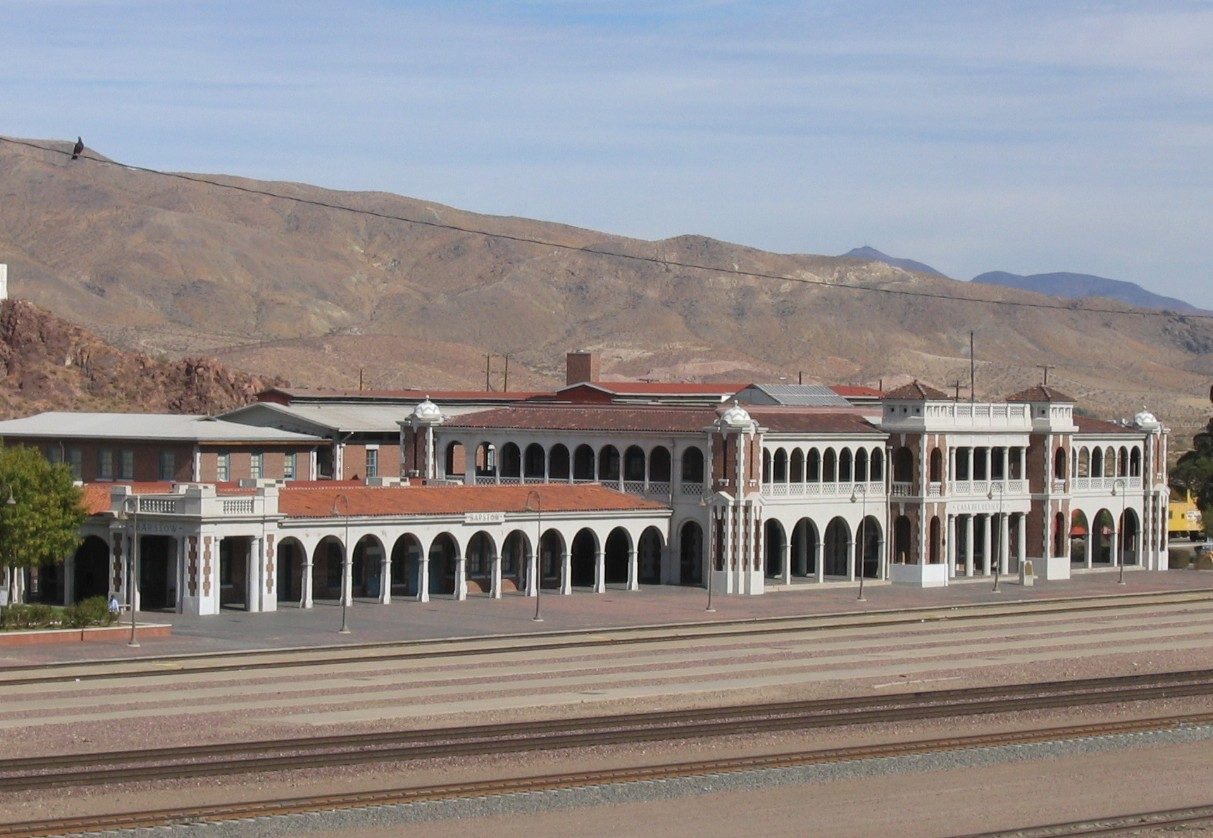 Beautifully restored AT&SF, Amtrak station, and Harvey House hotel, Casa del Desierto. Built in 1911. Also houses the Western America Railroad Museum. For more information on the museum go to